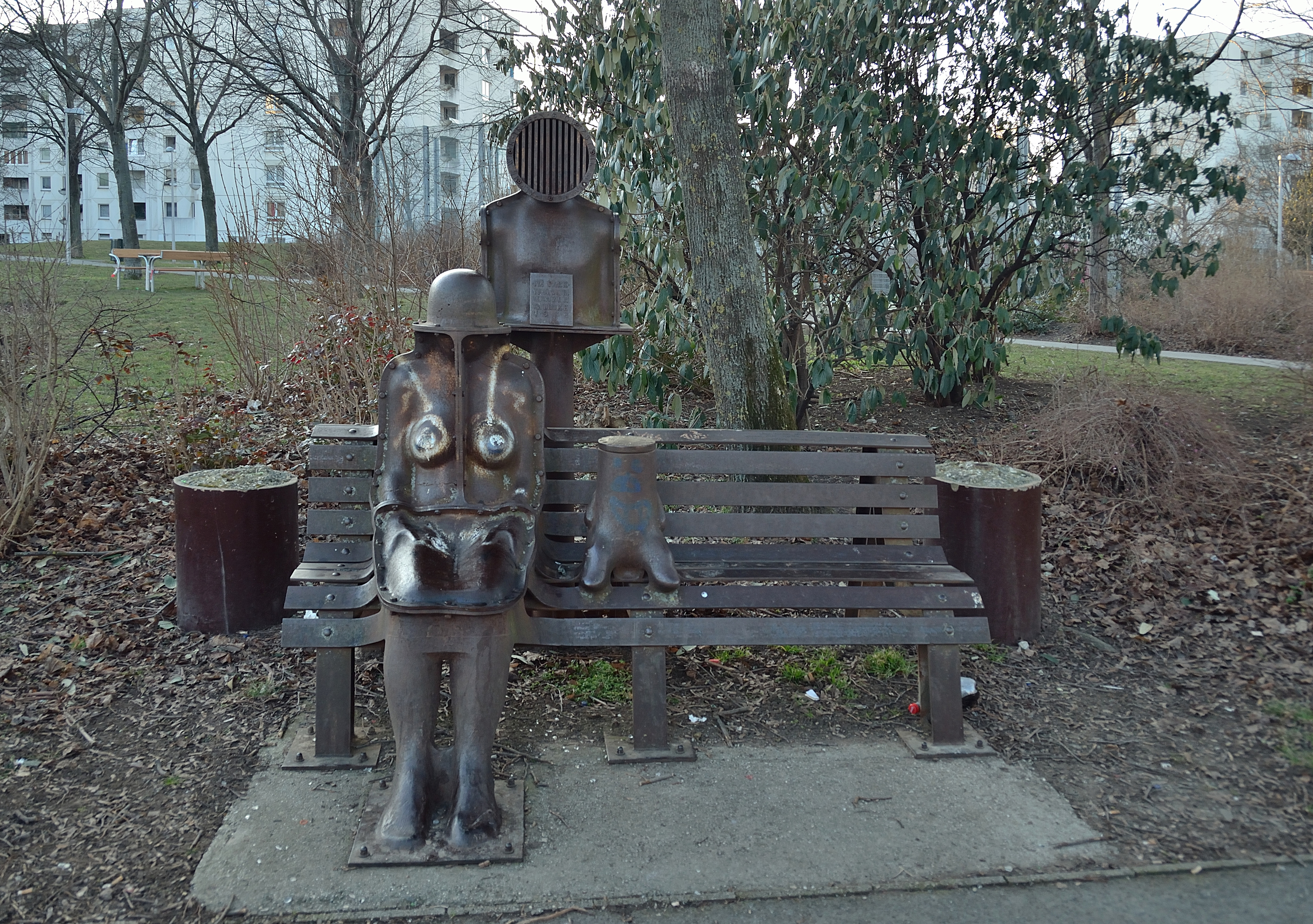 Sculpture Im Park, Teil vom Ganzen (In the park, part of whole) by Gert Linke created in 1983 in public housing Wiener Flur in Liesing, Vienna.